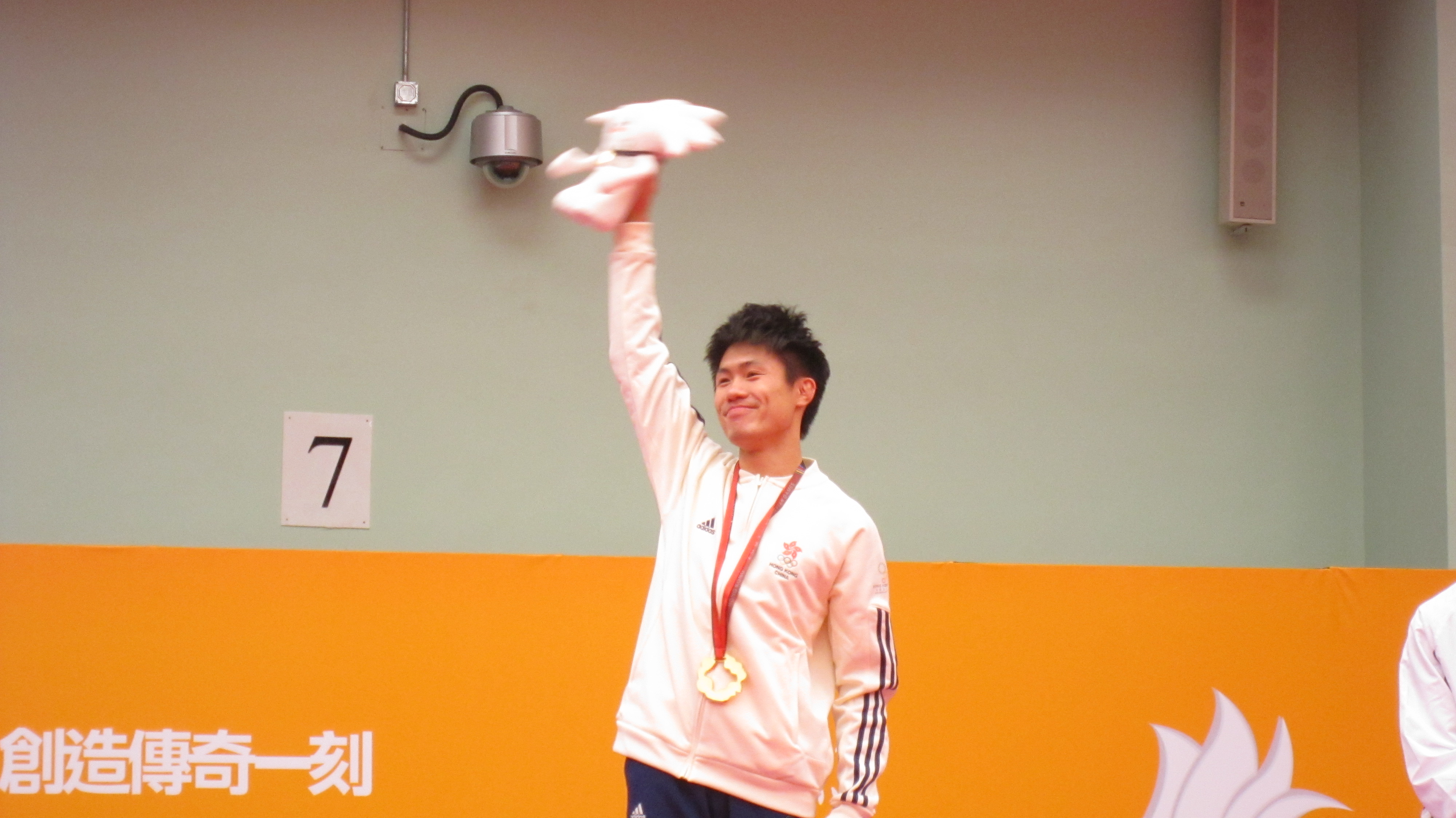 Hong Kong East Asian Games